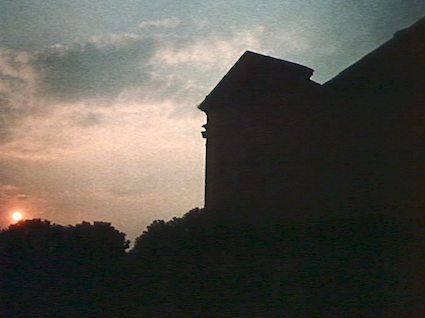 Time goes by